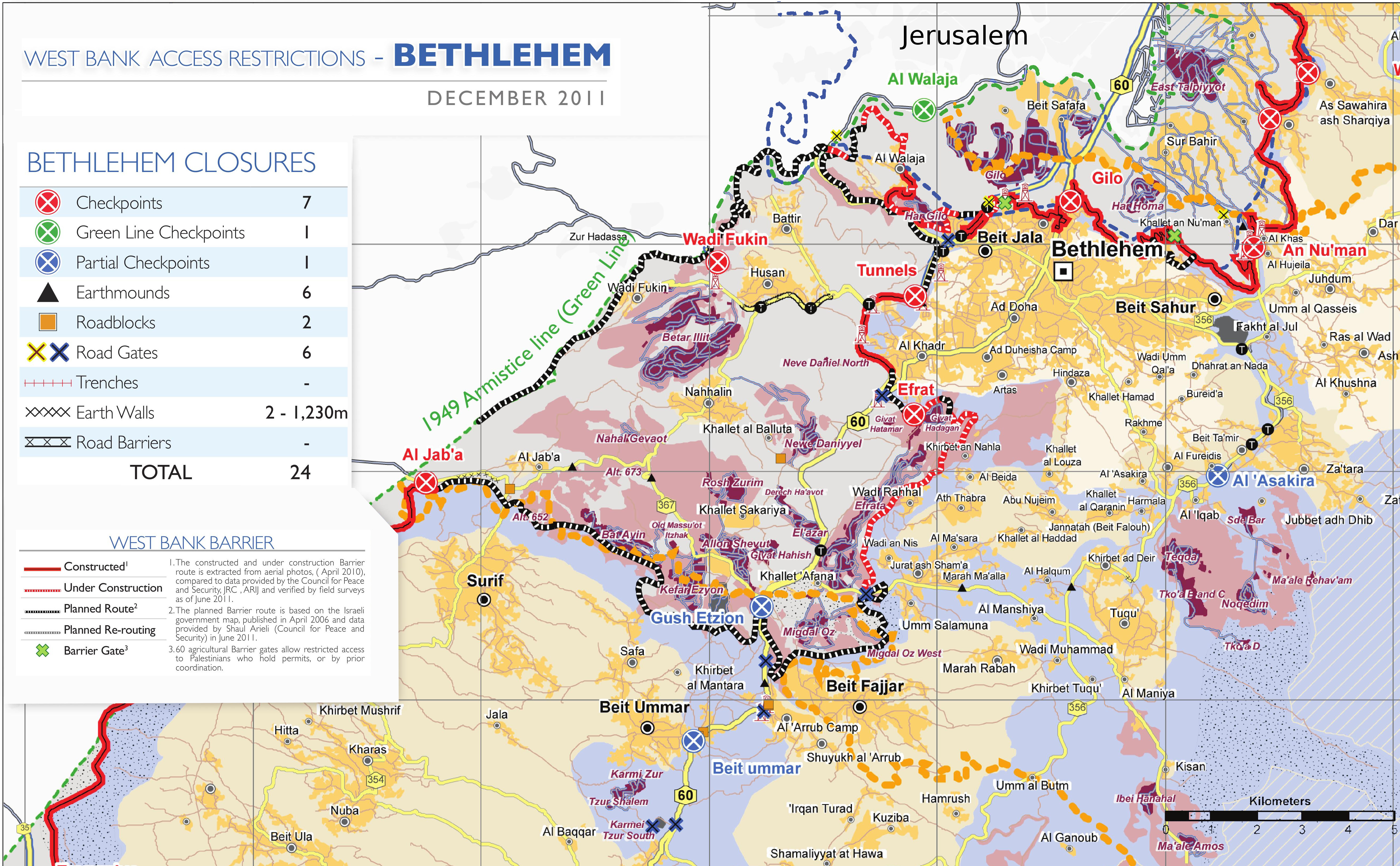 The Israeli Separation Wall near Bethlehem as of 2011.